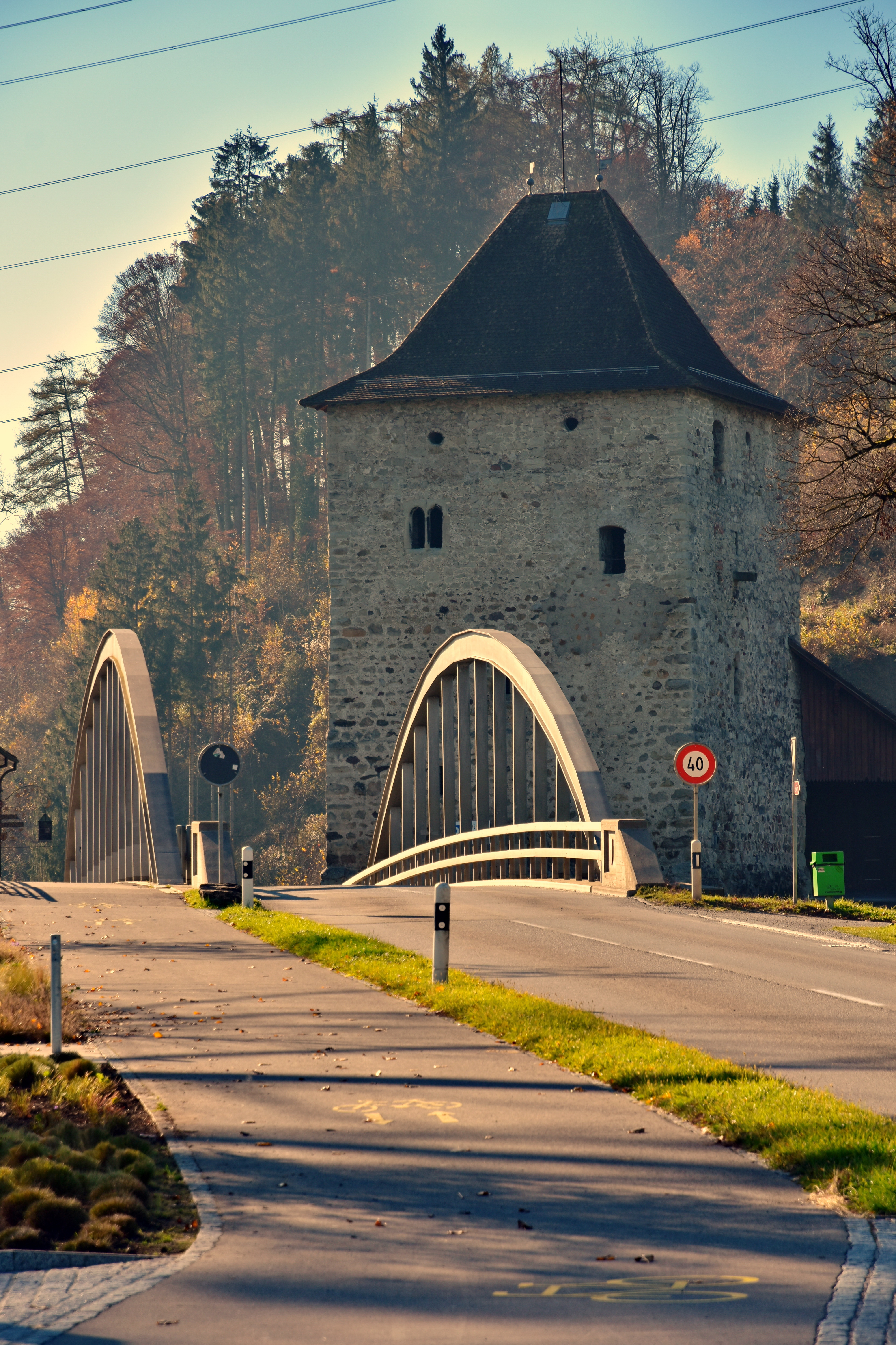 Grynau (Grinau or Schloss Grynau) is a castle tower, situated on the Linth canal in the Swiss municipality of Tuggen in the Canton of Schwyz, that was built by the House of Rapperswil in the early 13th century AD.